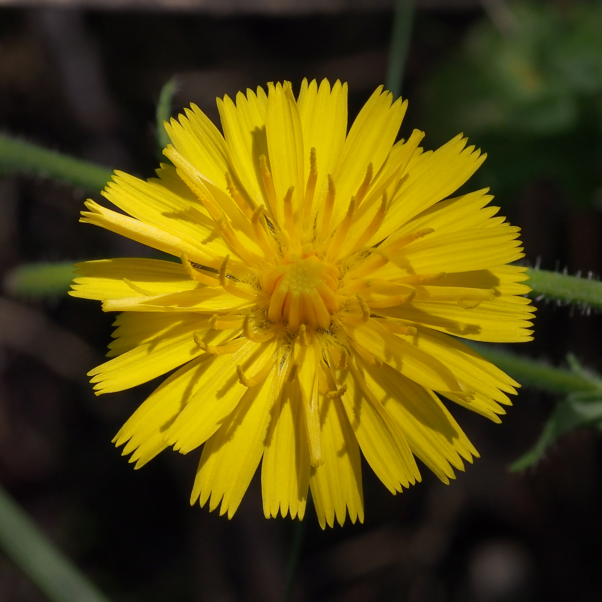 Golovec, Slovenia. Flower in around 25-30 mm in diameter.